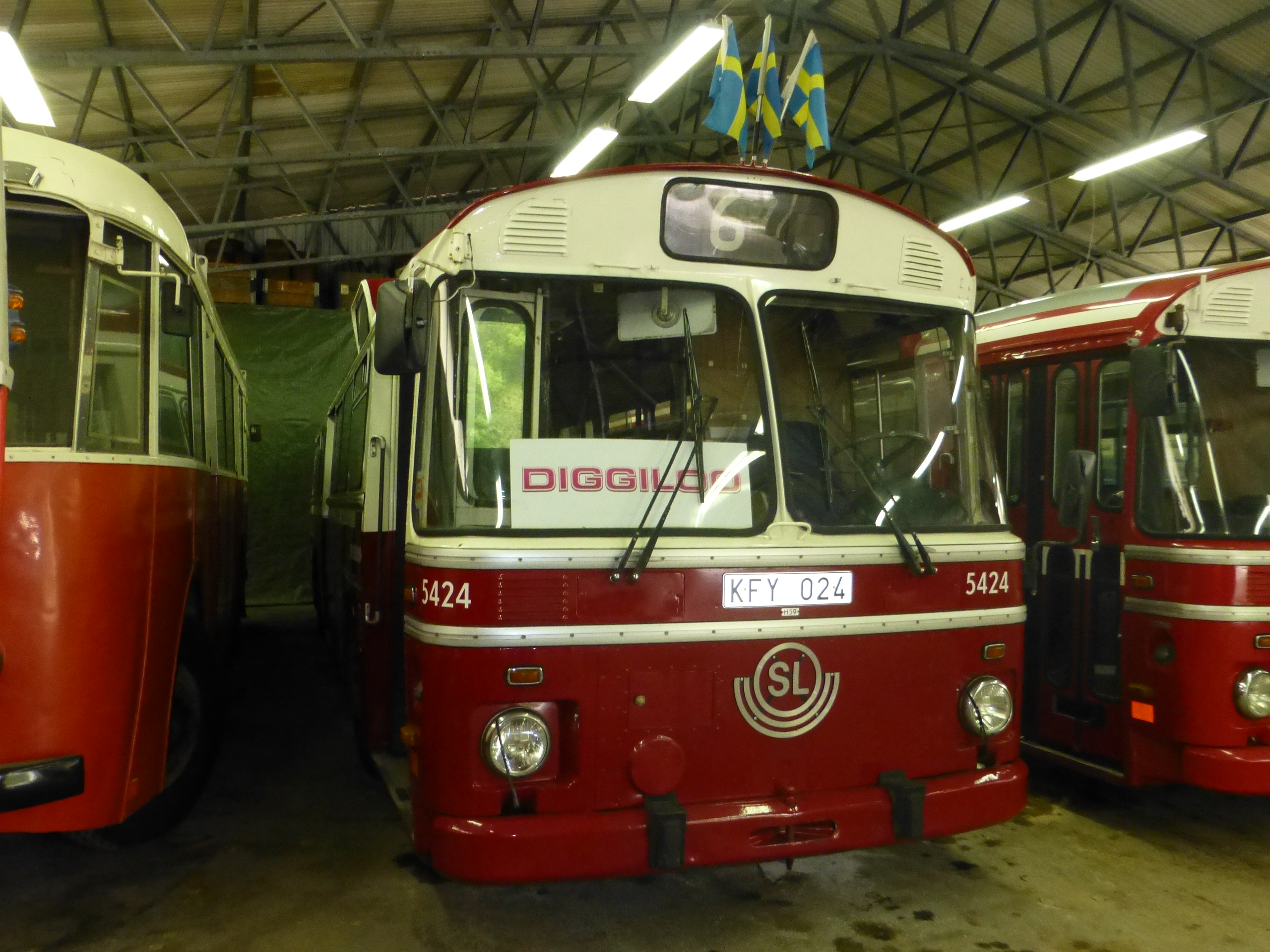 Old bus from Stockholm SL H59A 5424 at Museispårvägen Malmköping in Sweden.